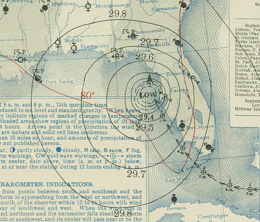 Surface weather analysis of the 1935 Labor Day hurricane on 4 September 1936.